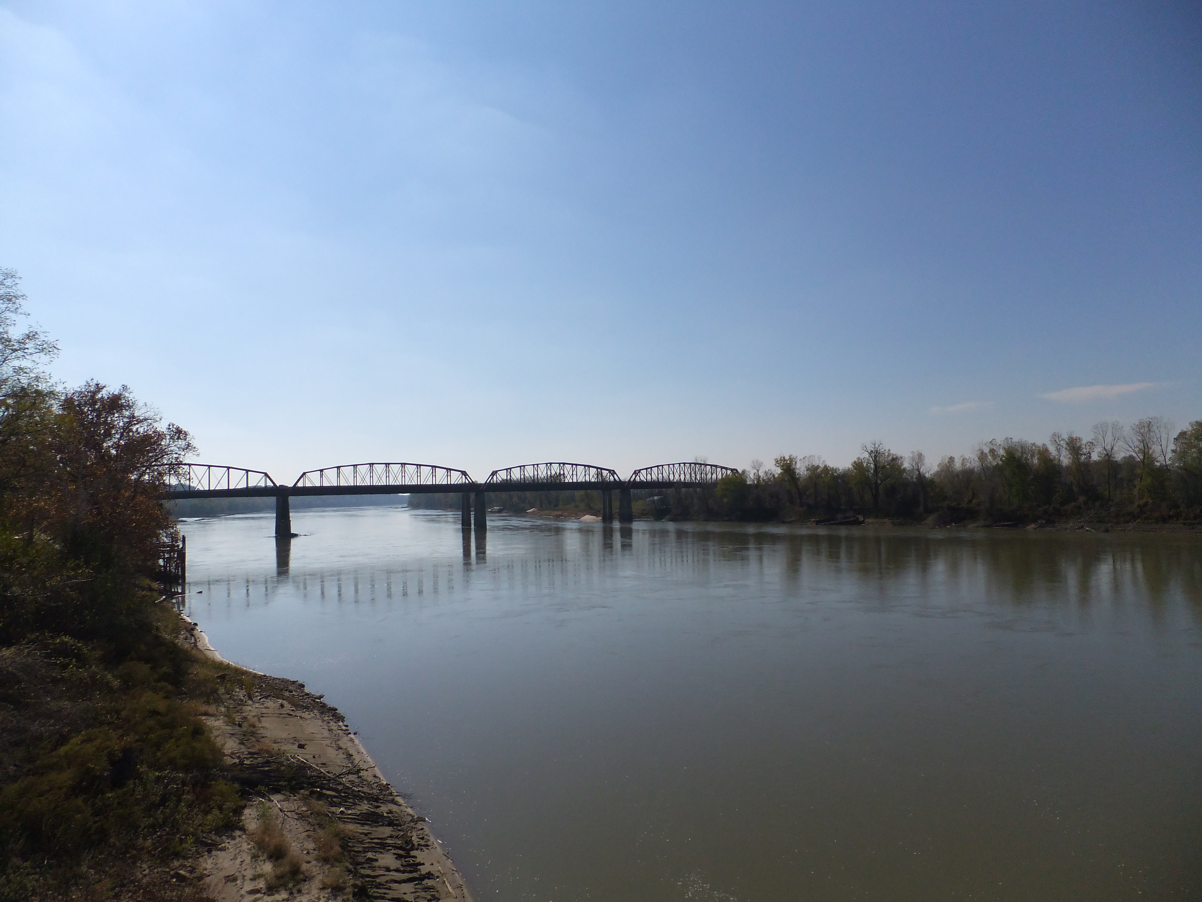 Out and About - Glasgow MO